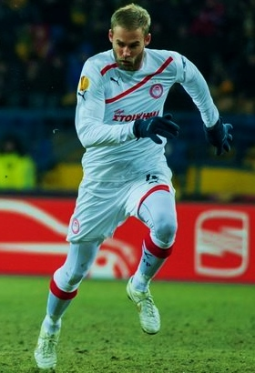 Olof Mellberg